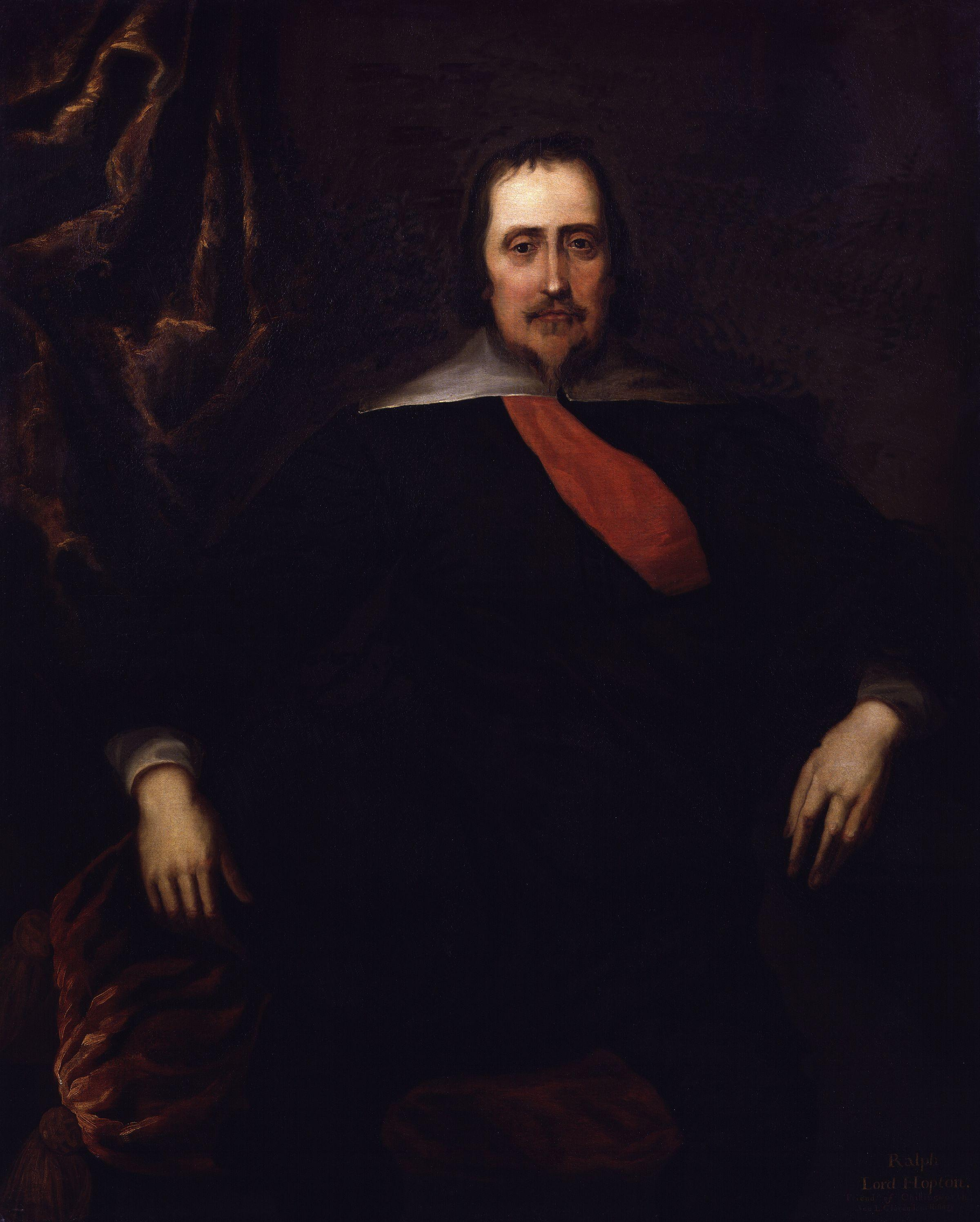 Ralph Hopton, 1st Baron Hopton of Stratton. Purchased by NPG in 1877. See source website for more information. All images in this batch have an unknown author, but there is strong evidence it was first published before 1923 (based mainly on the NPG's estimated date of the work).